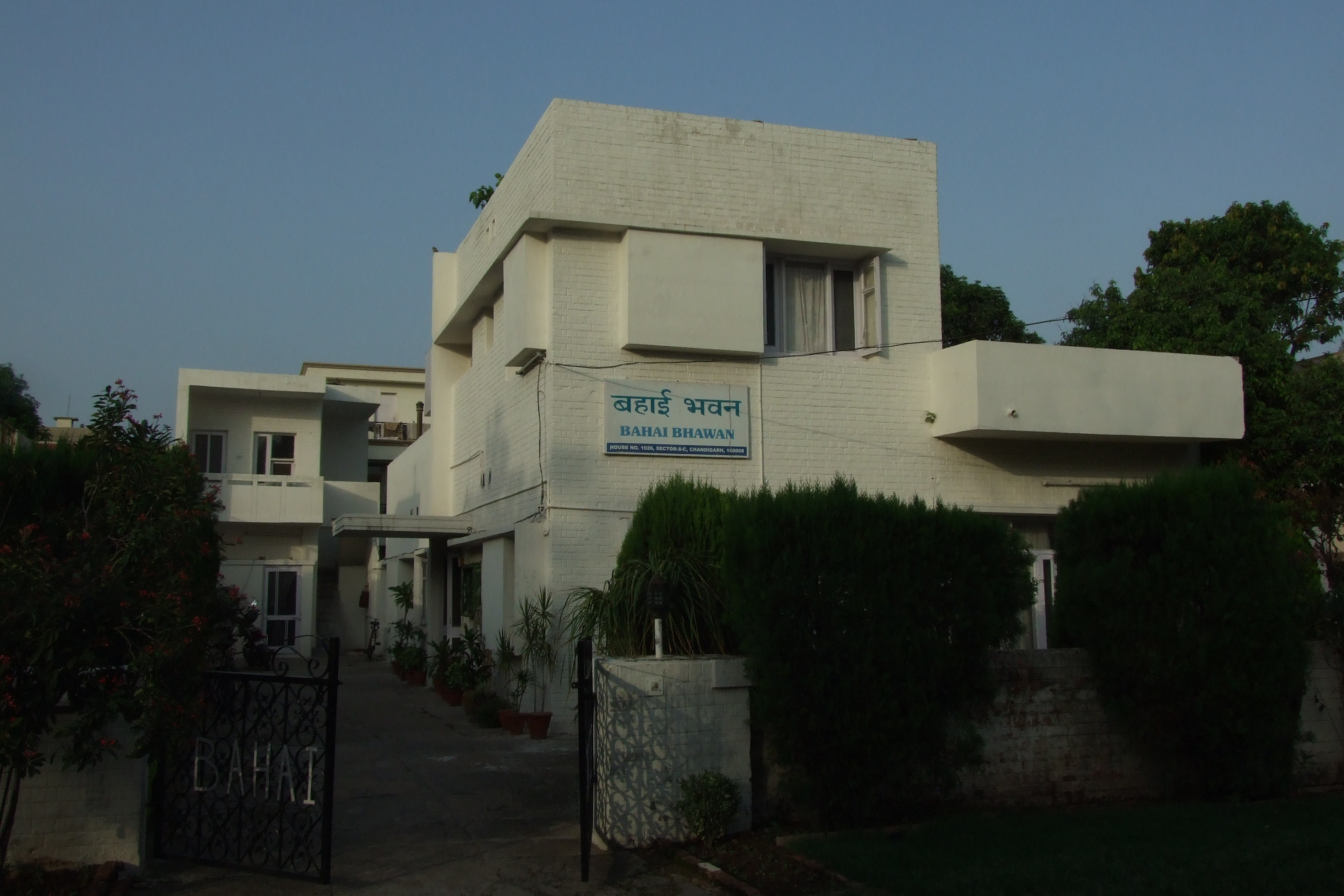 Baha'i house in Chandigarh.